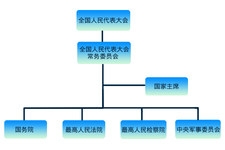 Illustration of the Constitution of the PRC.